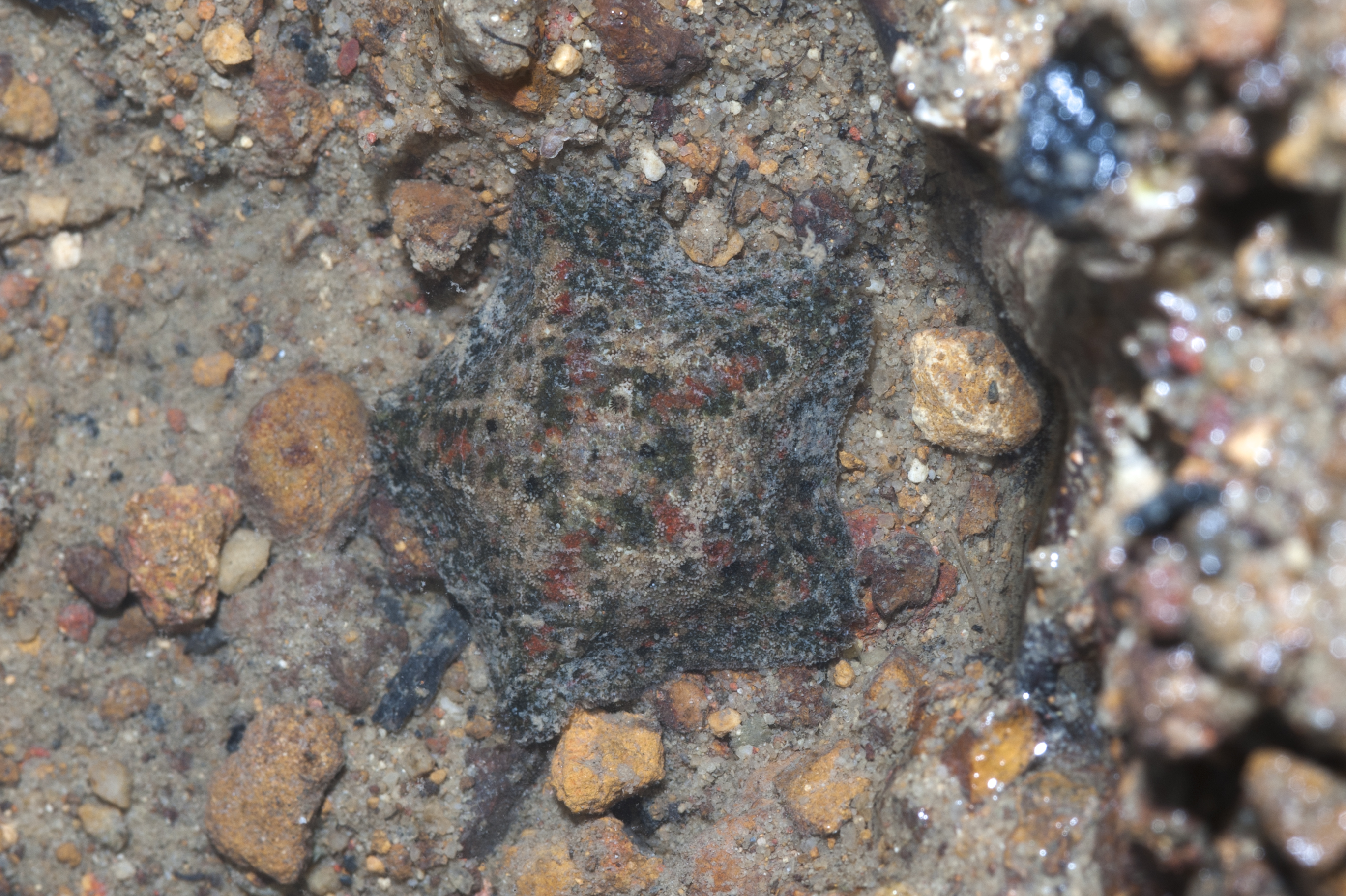 Cryptasterina pentagona